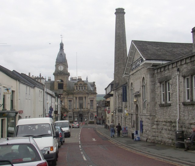 Wetherspoon and Town Hall, All Hallows, Kendal. The Kendal Wetherspoon is in the former public baths, and still has the boiler chimney. Opposite the end of the street the Town Hall was built as assembly rooms in 1825, converted to the town hall in 1859 and extended in1893, when the tower, designed by S. Shaw in a French style, was added.